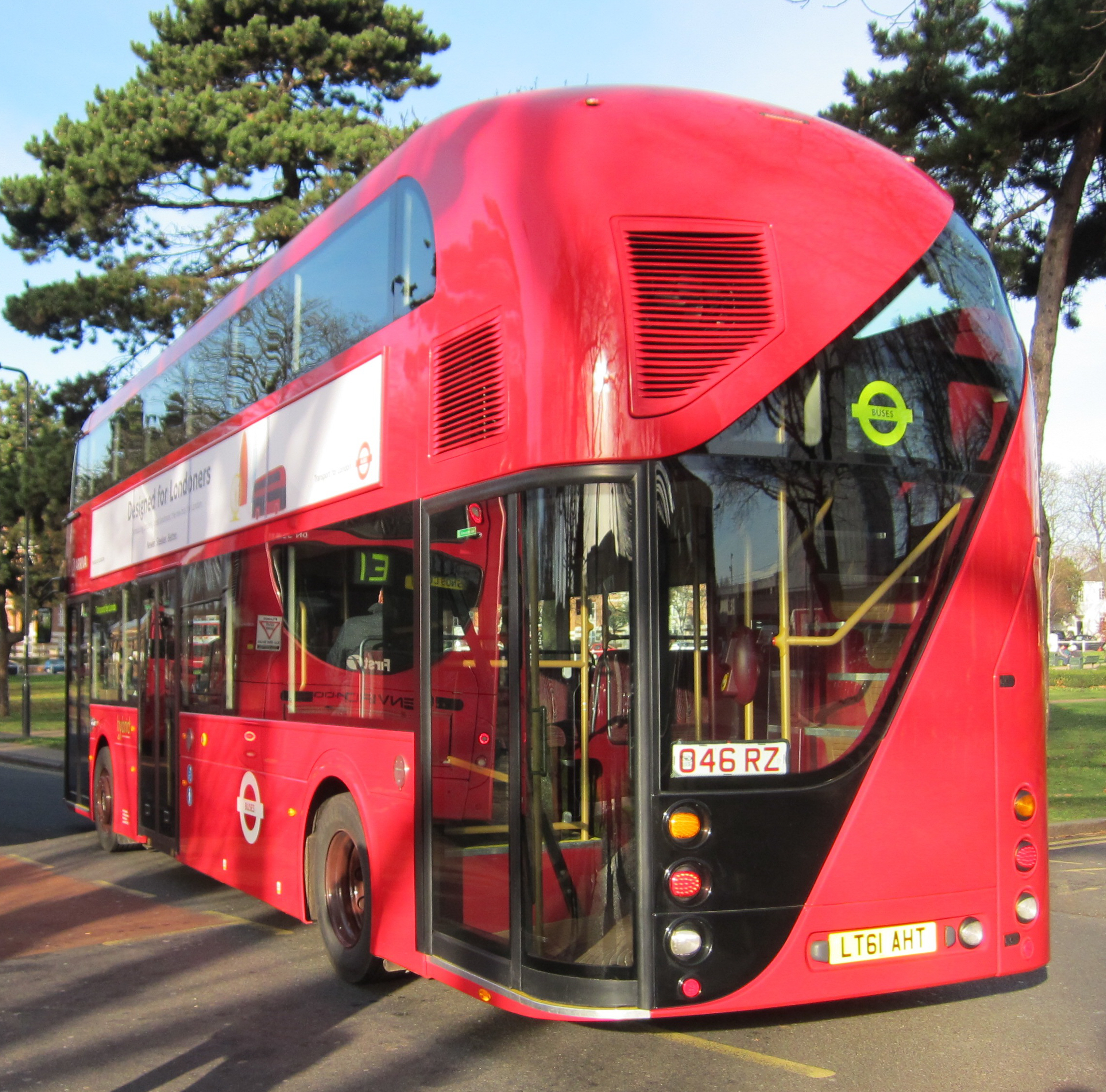 Arriva London bus LT1 (reg. LT61 AHT), the first of the batch of 8 pre-production working prototypes of the New Bus for London. Already wearing Arriva London livery, it's pictured here in Haven Green, Ealing while on its tour around the city for public viewings, prior to entering trial revenue earning service on Arriva's London Buses route 38 as additional short worked extras. Reflecting in the windows is an Enviro400 operating London Buses route E1.